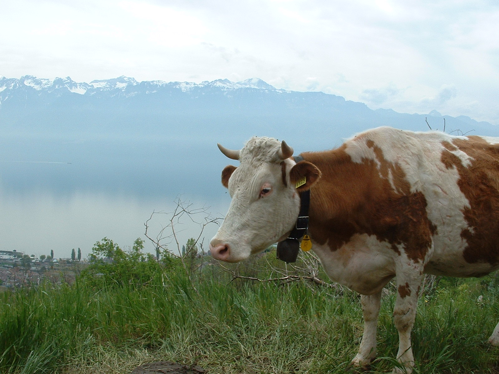 A Simmental cattle overlooking Lake Geneva in Switzerland.